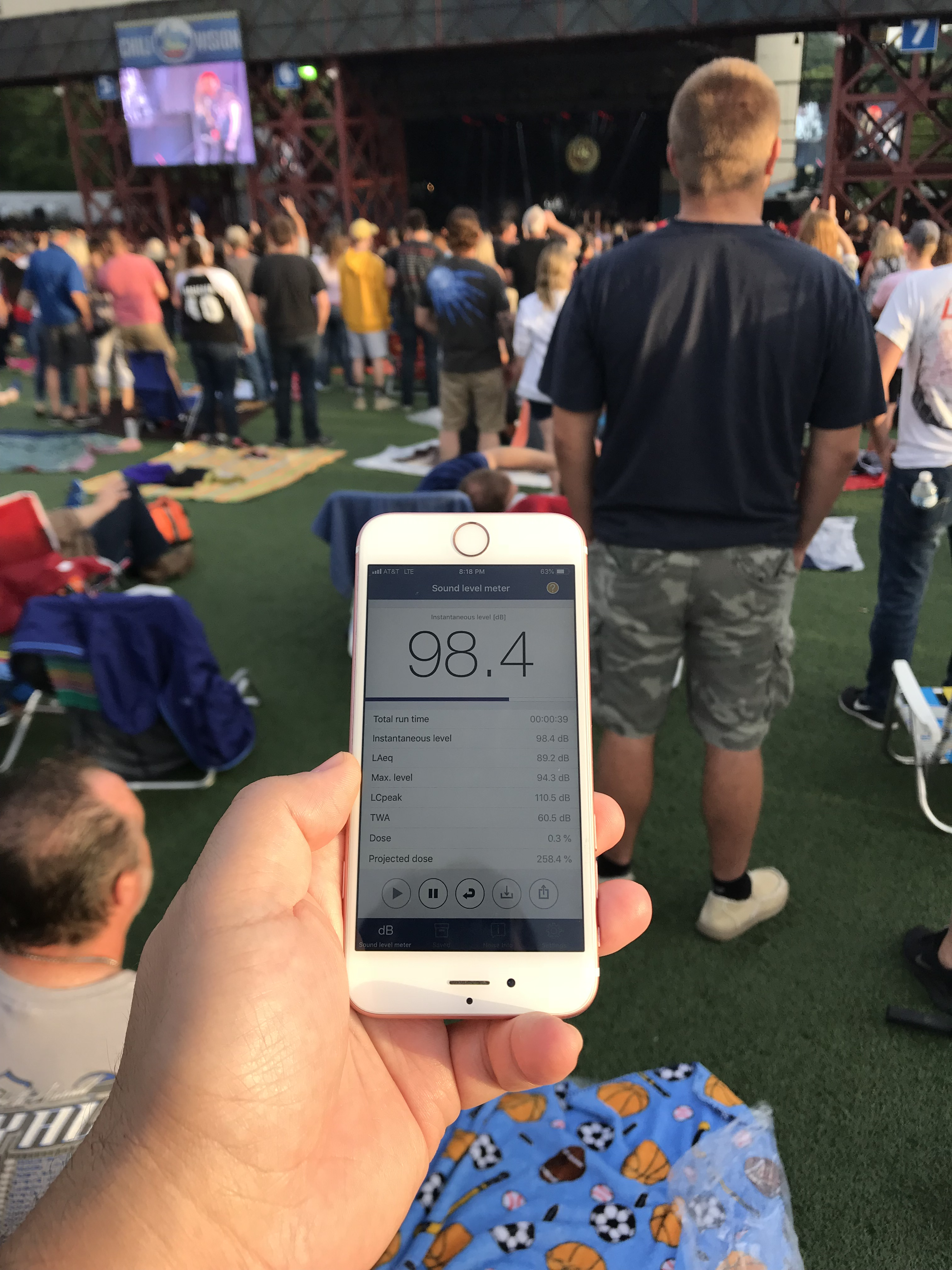 Sound level at outdoor concert using the NIOSH Sound Level Meter app